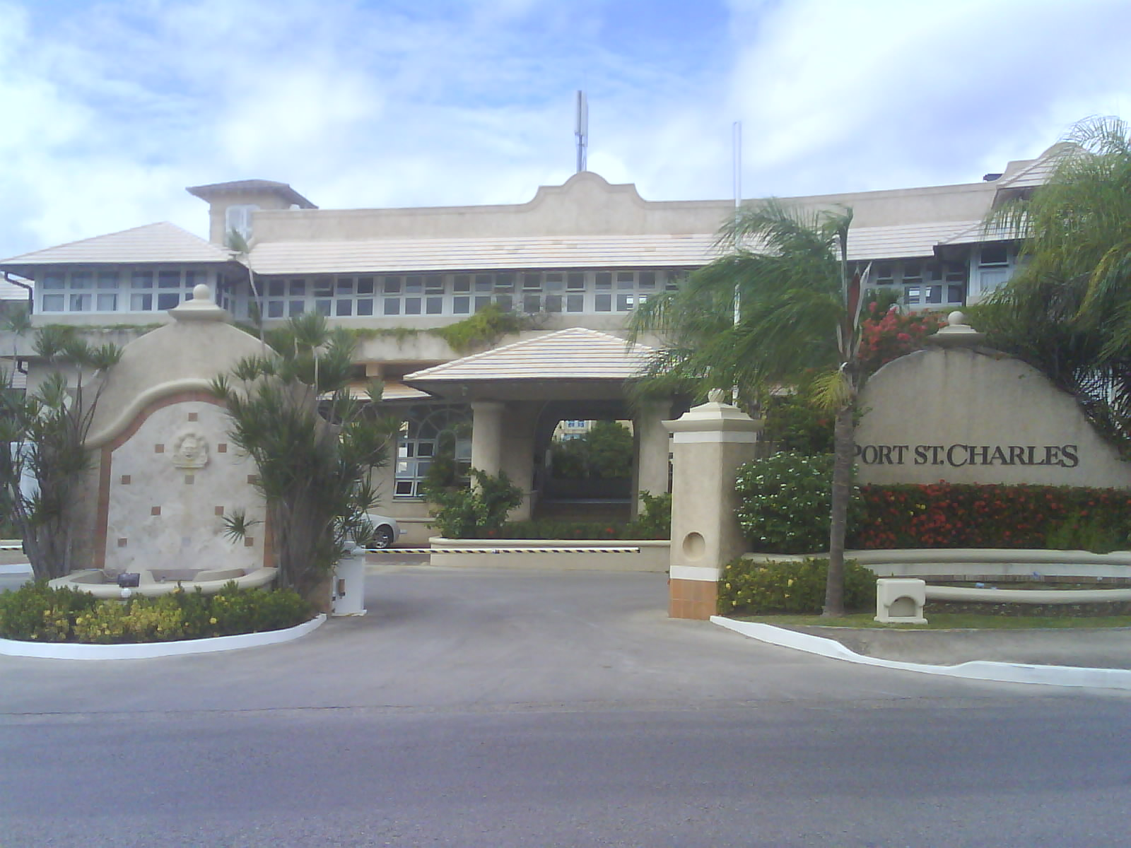 The entrance to the Port Saint Charles luxury marina in Saint Peter, Barbados.